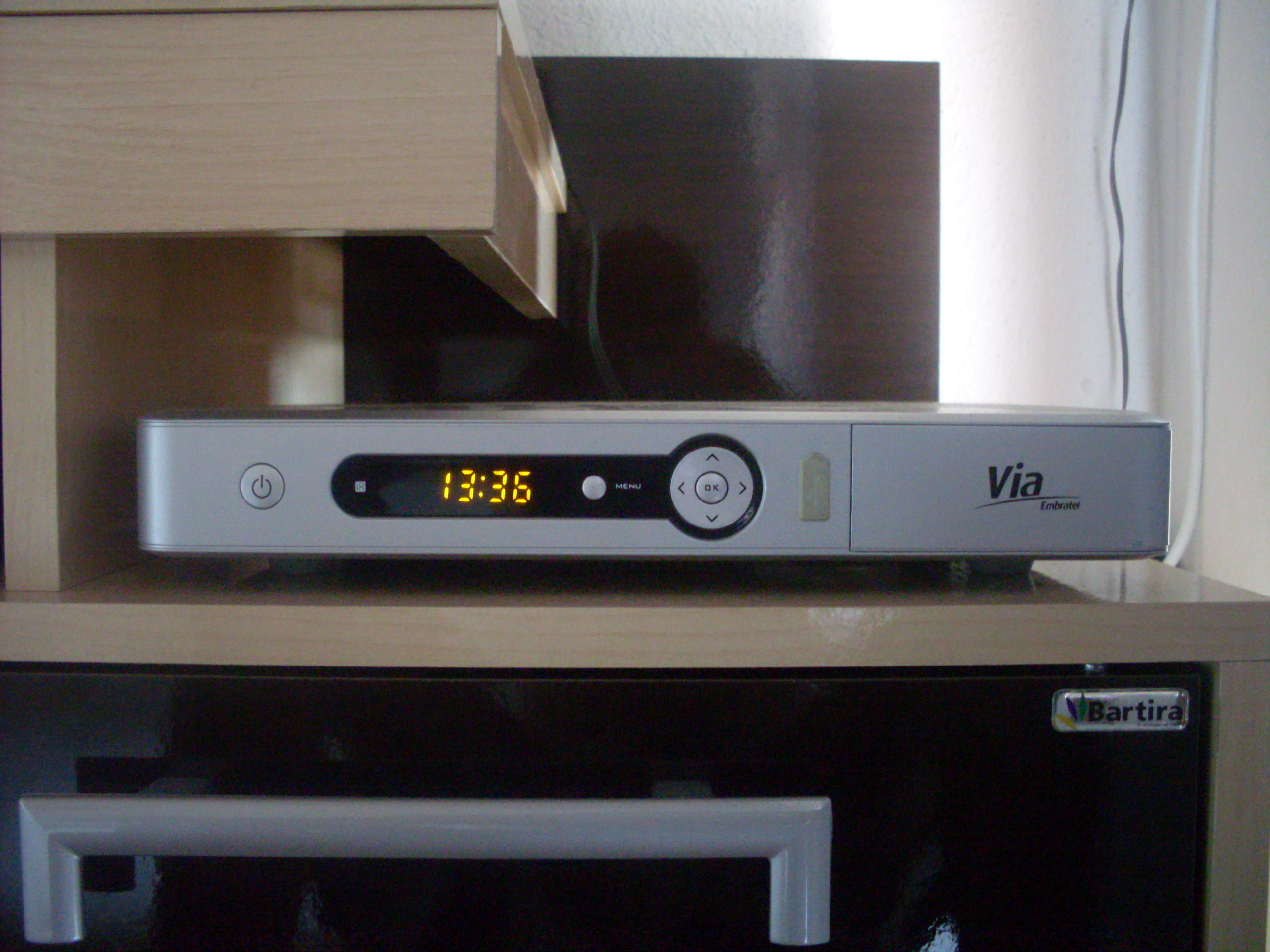 N8102H - Via Embratel